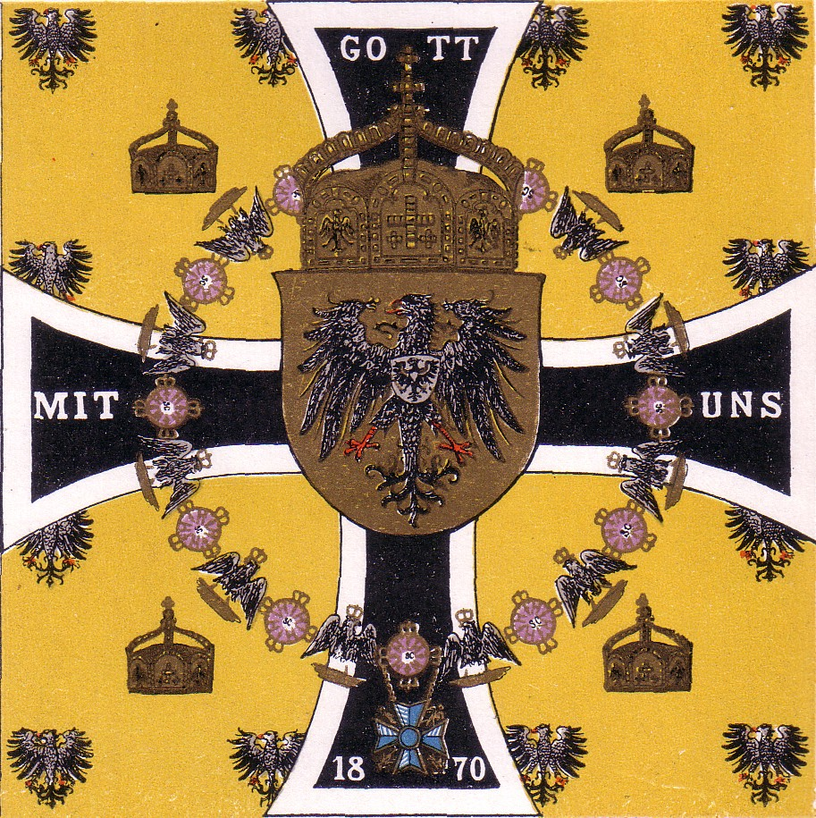 Standard of the German Emperor, 1900